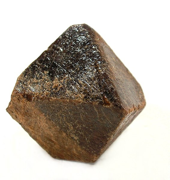 Pyrochlore Locality: Tatarskii Massif, Tatarka Range, Enisei Range (Yenisei Ridge; Enisei Ridge), Krasnoyarsk Territory (Krasnoyarsk Kray; Krasnoyarskii Krai), Eastern-Siberian Region, Russia (Locality at ) Size: 3.6 x 3.2 x 1.8 cm. A huge single crystal, with good overall octahedral form overall. These came out in the 1980s, and to market in the 1990s, impressing people for the unusual size of the sharp crystals from this locale. Ex. Martin Zinn Collection.